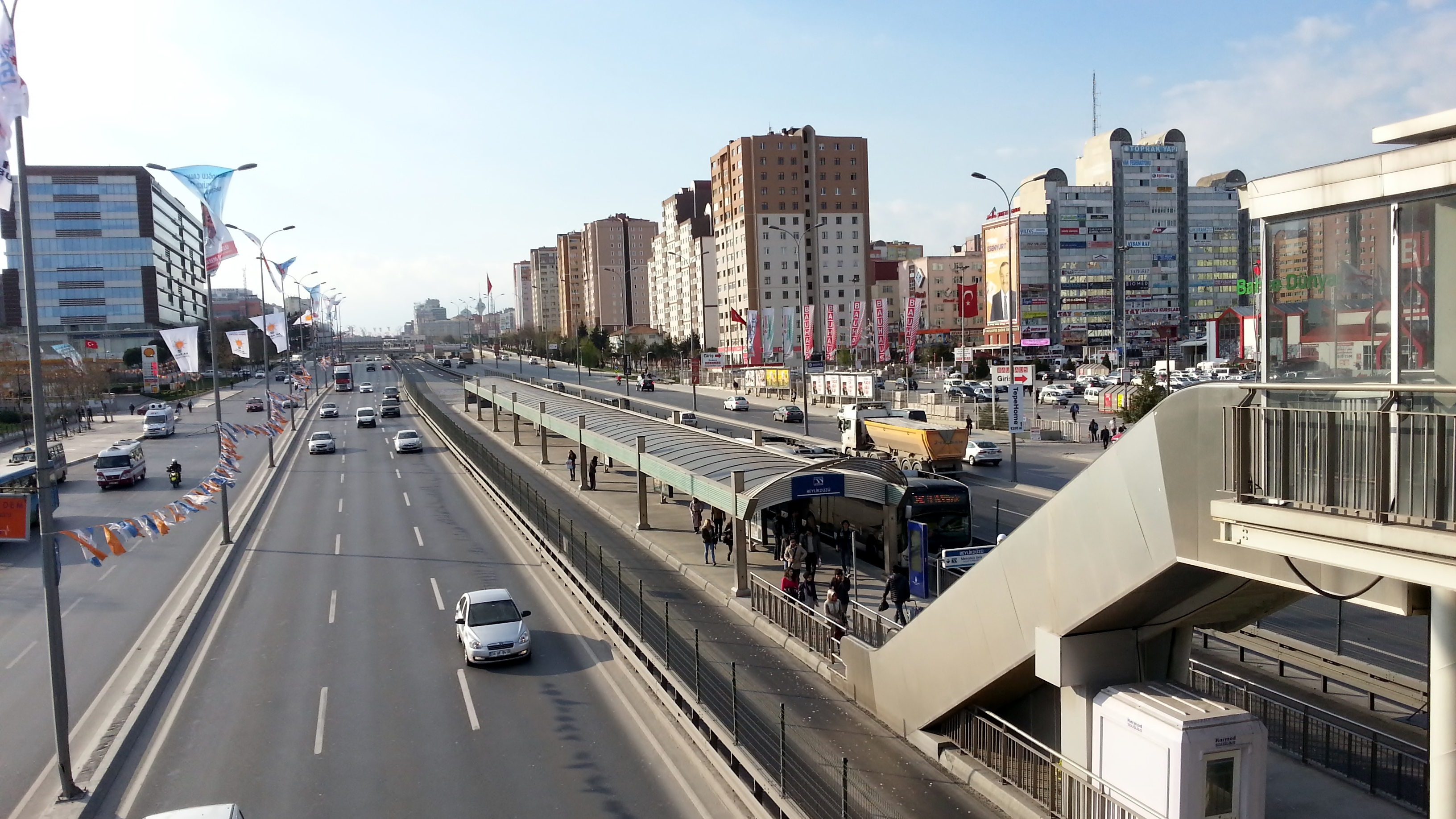 beylikdüzü metrobüs stationTürkçe: 5m migros, real marmarapark yanı metrobüs durağı beylikdüzü